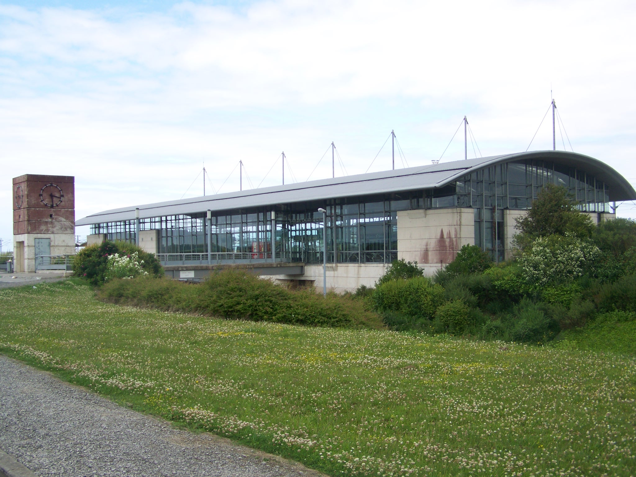 Building of Calais-Fréthun railway station in Pas-de-Calais, France. Last station before entering the Channel tunnel.